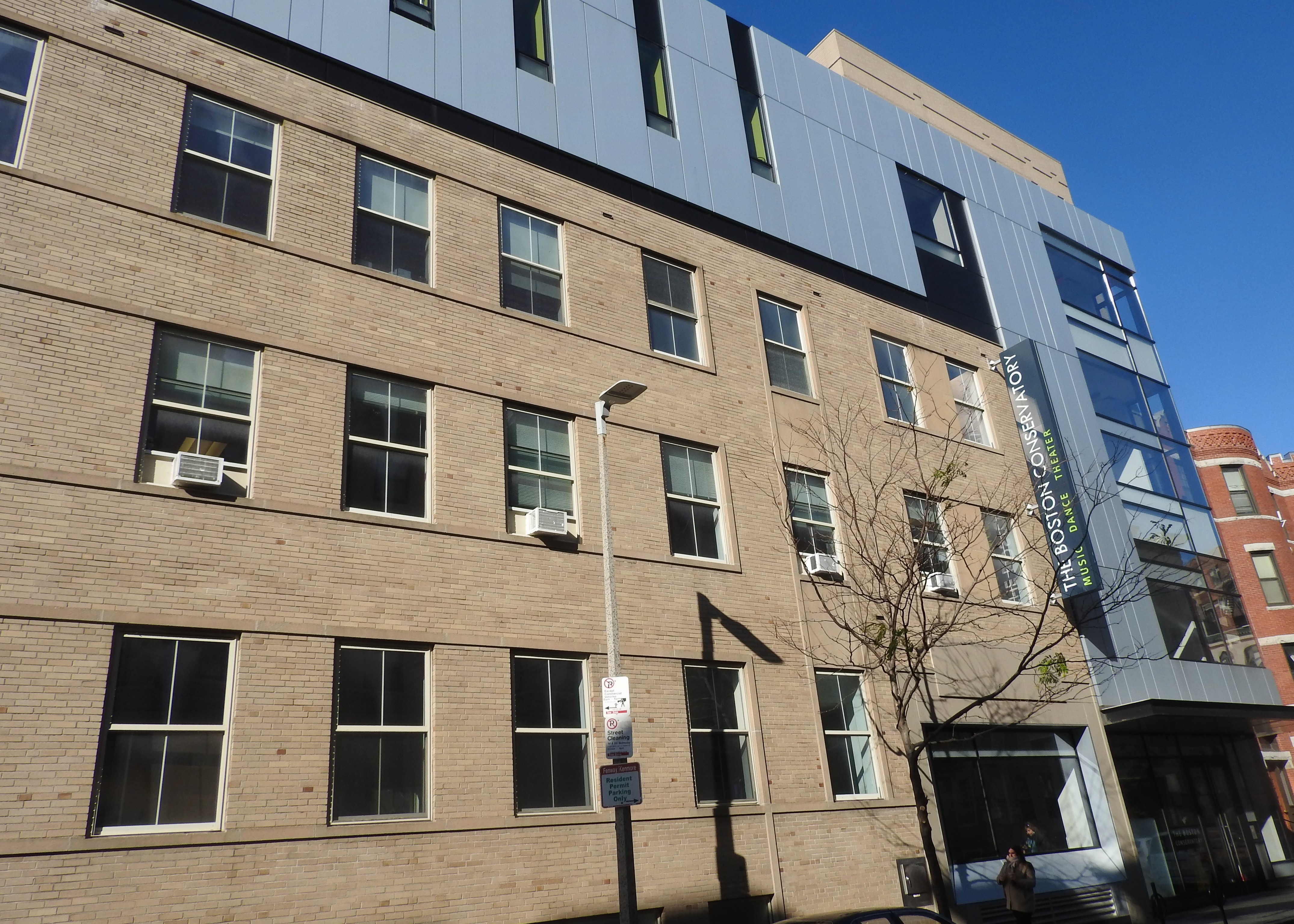 Looking north across Hemmenway at Dance Theater on a sunny morning